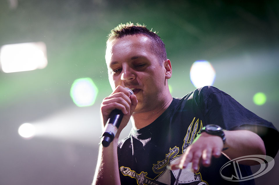 Polish hip-hop group Pokahontaz